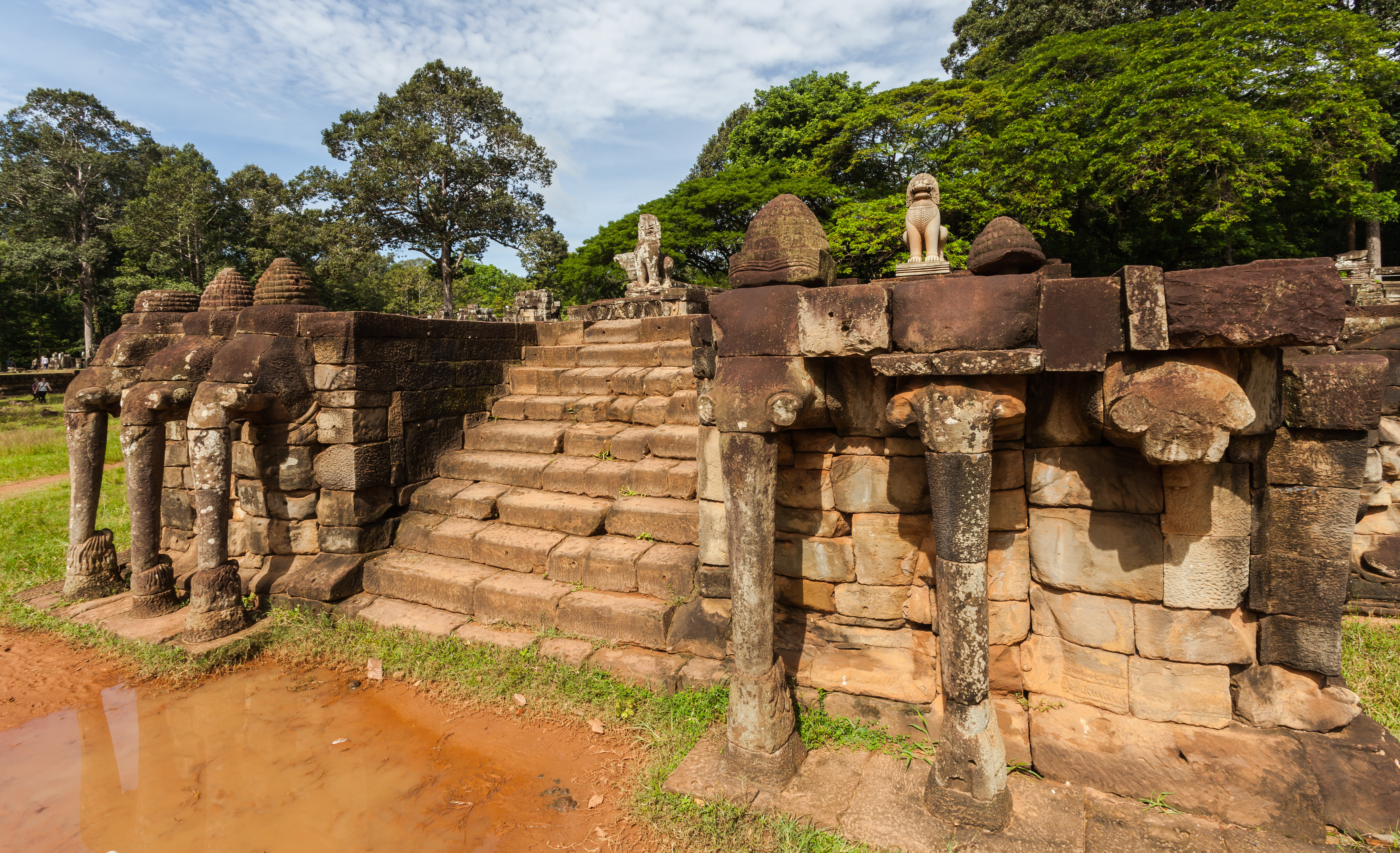 Terrace of the Elephants, Angkor Thom, Cambodia